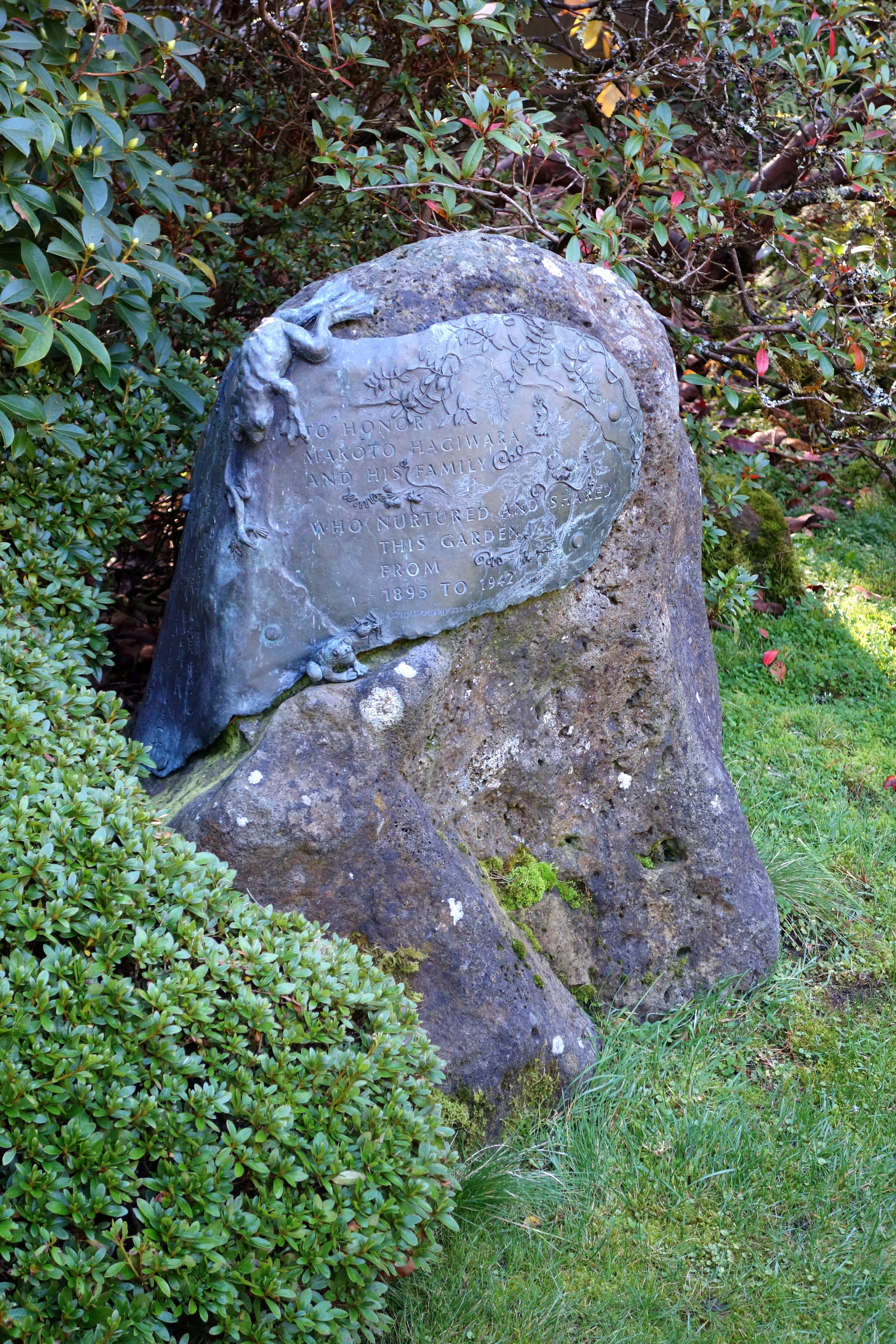 Japanese Tea Garden, Golden Gate Park, San Francisco, California, USA.